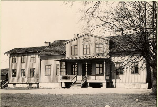 Waterloo, a mansion in Gothenburg, Sweden.